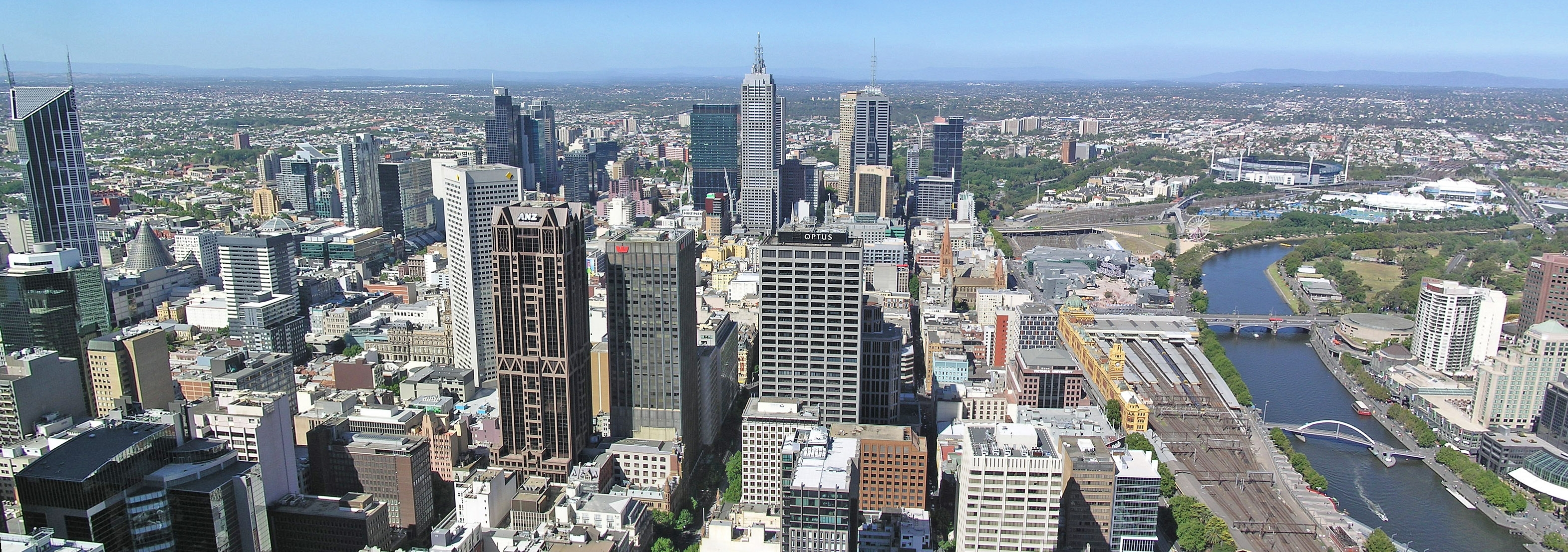 Melbourne CBD panorama view with urban sprawl towards the Mount Dandenong. (The image was stitched from three photos in landscape format.)